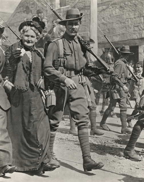 AWM Caption: SYDNEY, NSW, 1914-08-14. HER SOLDIER SON. THE FIRST BATCH OF AUSTRALIAN TROOPS, 1 AUSTRALIAN NAVAL AND MILITARY EXPEDITIONARY FORCE (AN&MEF) TO LEAVE AUSTRALIA FOR RABAUL. THEY ARE SEEN MARCHING TO THE WHARF, ONE CHEERFUL MOTHER BESIDE HER SON.